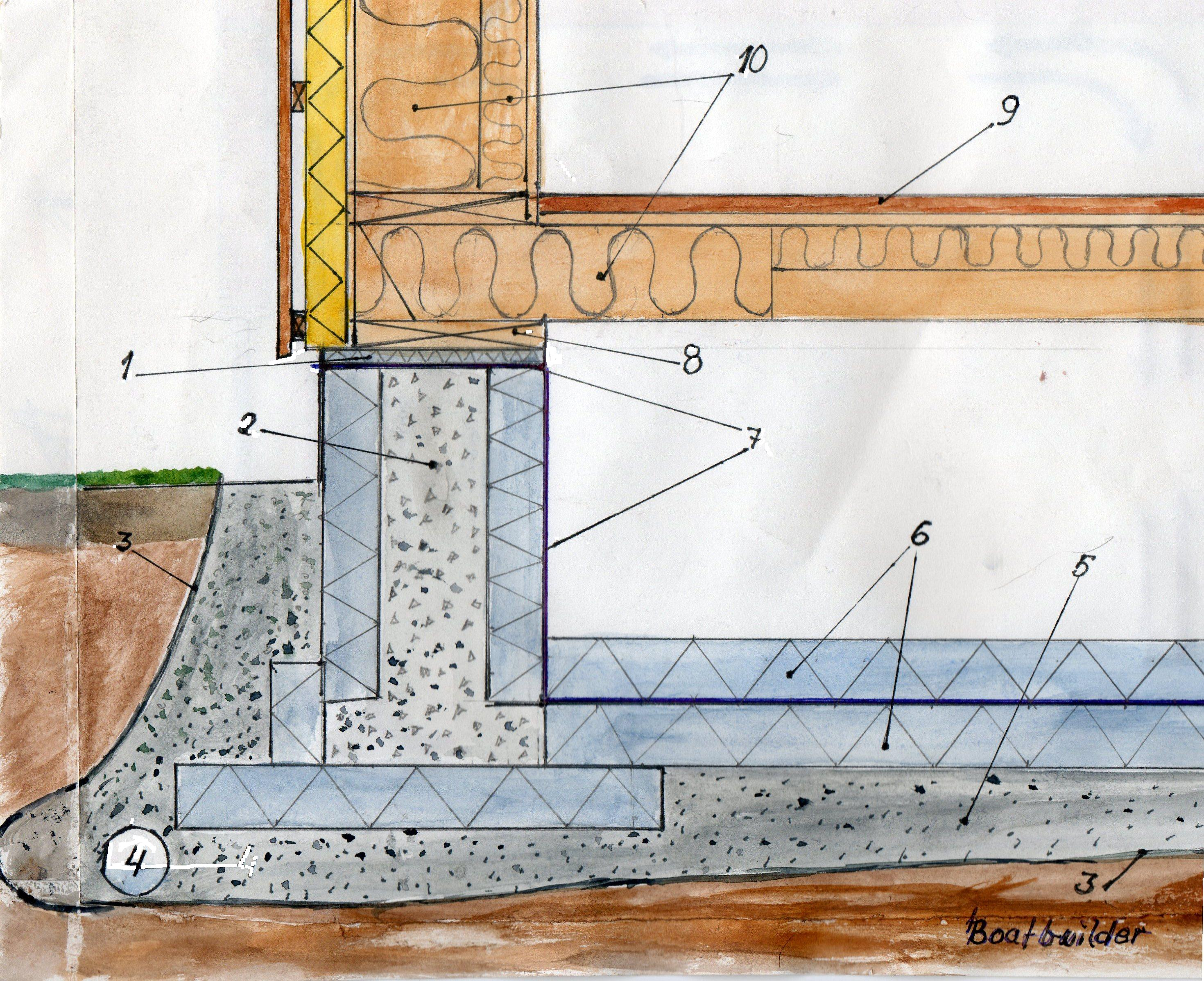 Crawl-spaces in Sweden.